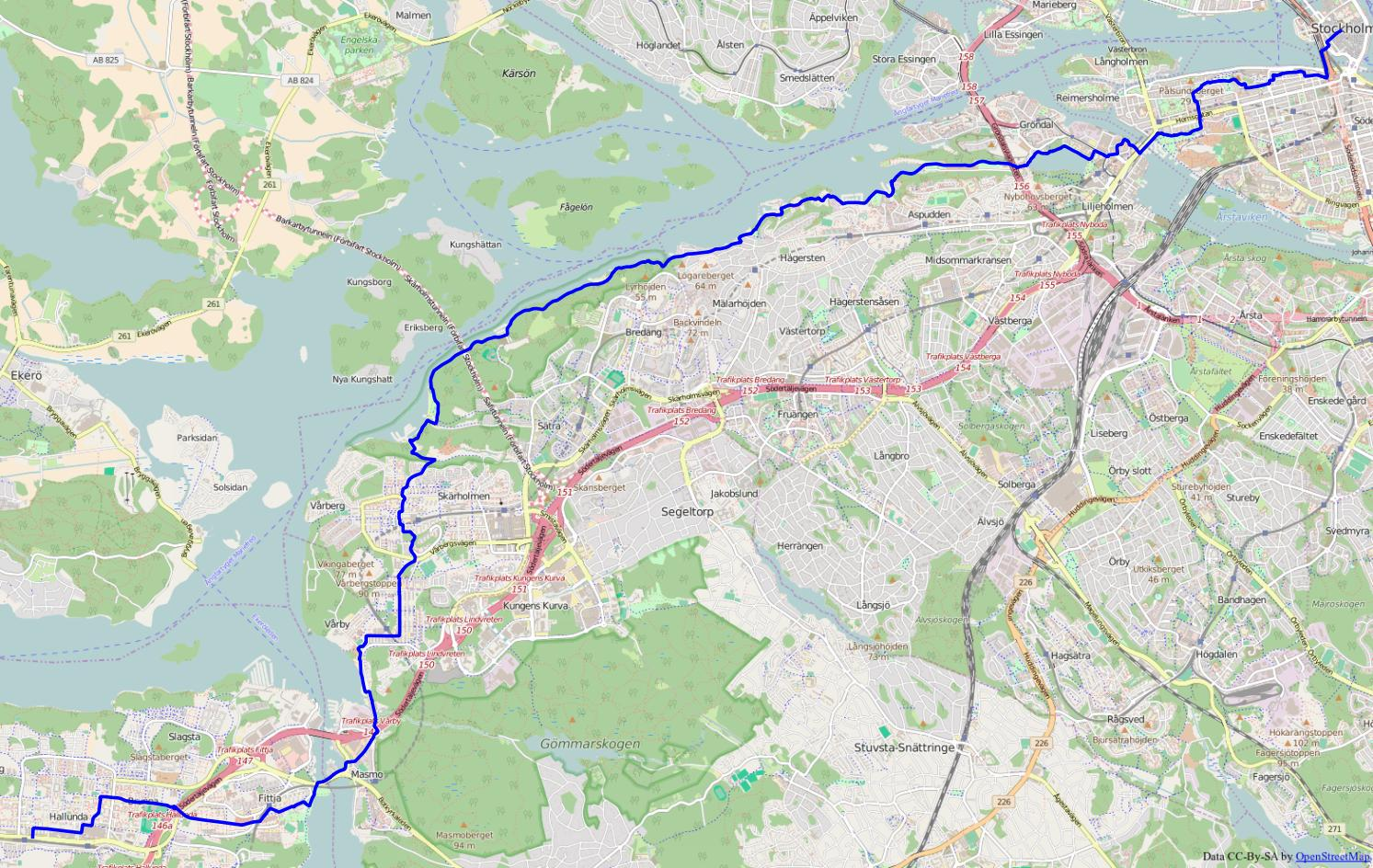 The Norsborgsstråket hiking trail in Stockholm, Sweden.